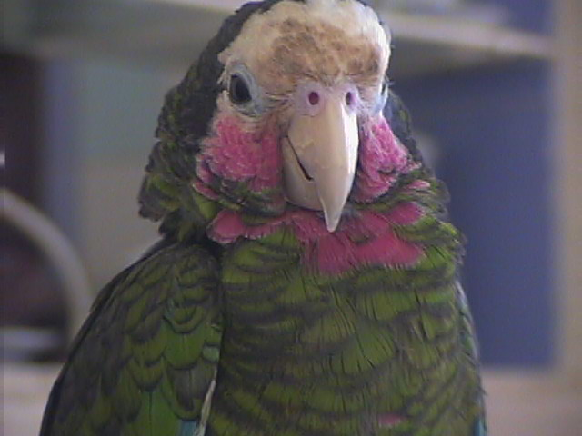 Image of a Cuban Parrot also known as Cuban Amazon